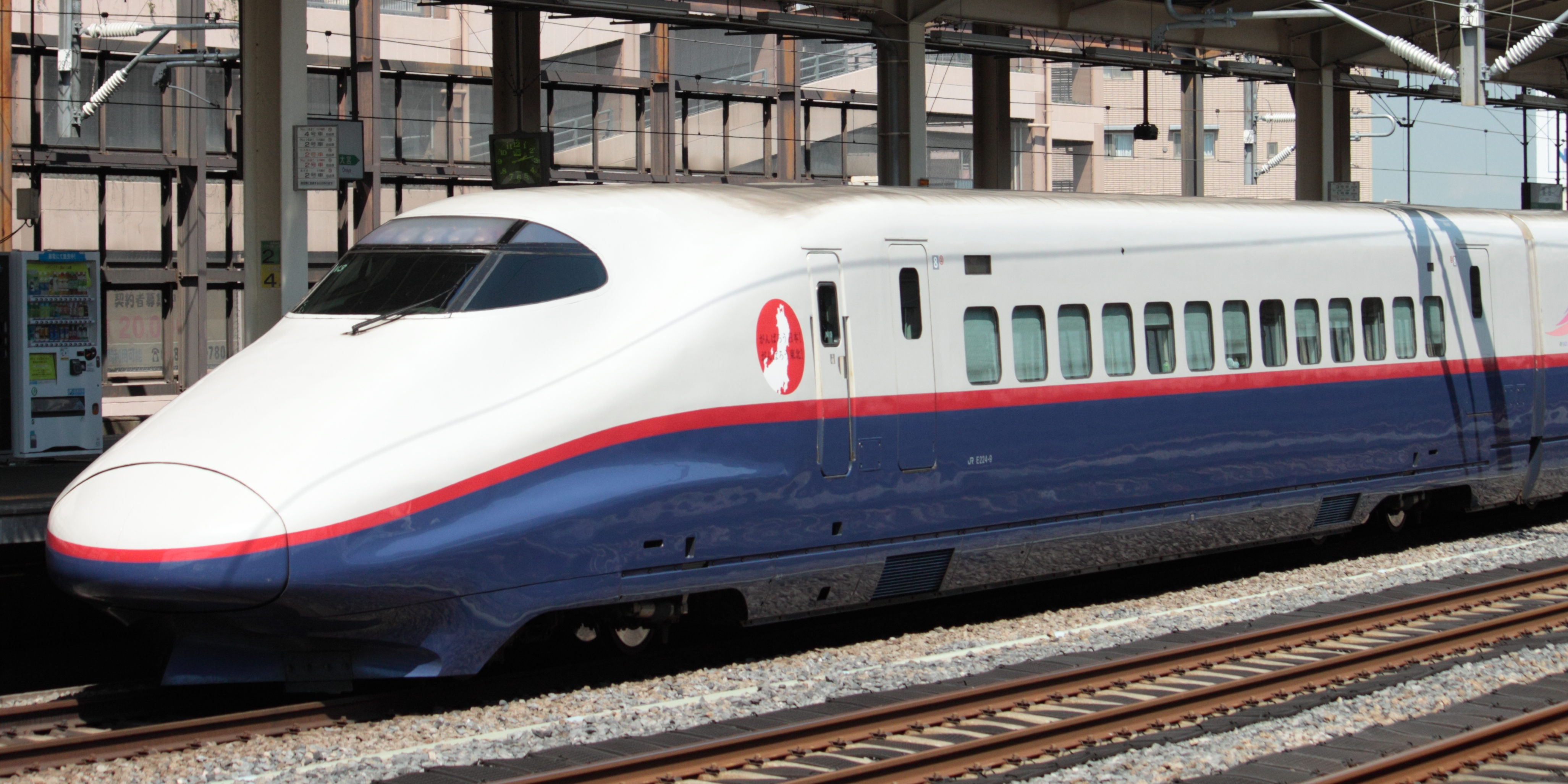 JR East E2-0 series shinkansen car E224-9 (car 8 of set N3) at Kumagaya Station